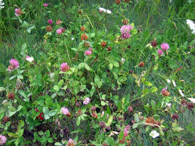 Natural beauties of Zlatibor – Red clover (Trifolium pratense).